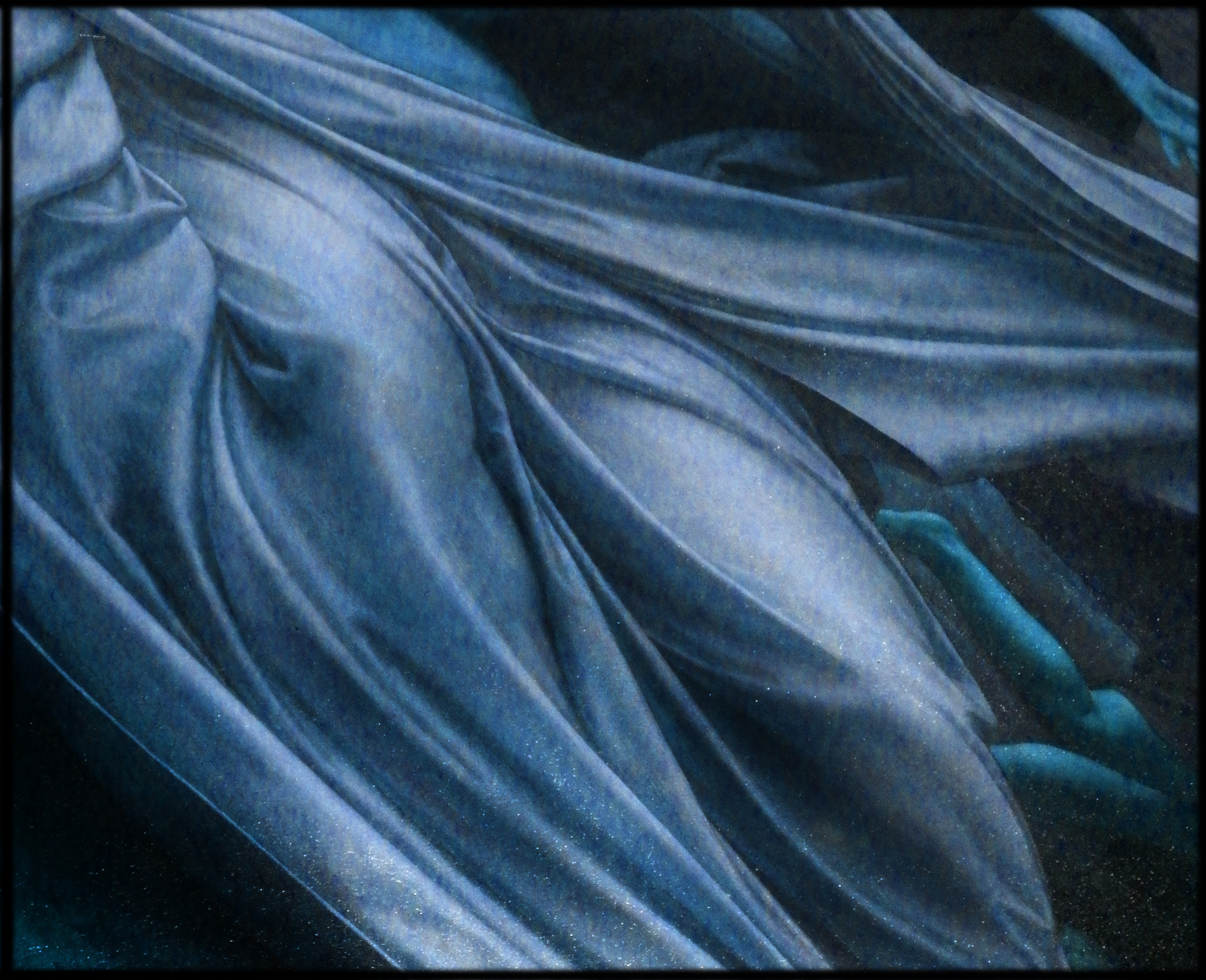 Photography of a drape painted (from a large painting, oil on canvas of the nineteenth century located in the Atrium) distorted (by shooting made of bias, and changed color) made in the Palace of Fine Arts in Lille in 2016 during the launch ot the WikiMuseum project. This picture tries to illustrate the pleasure to let the eye wander on this type of detail, which - seen close - evokes abstract and aesthetic forms that invite to dream. It is also a form of tribute and thanks to the painter (and those of his students who would eventually participated in the work, which is monumental). Guess what this painting is.